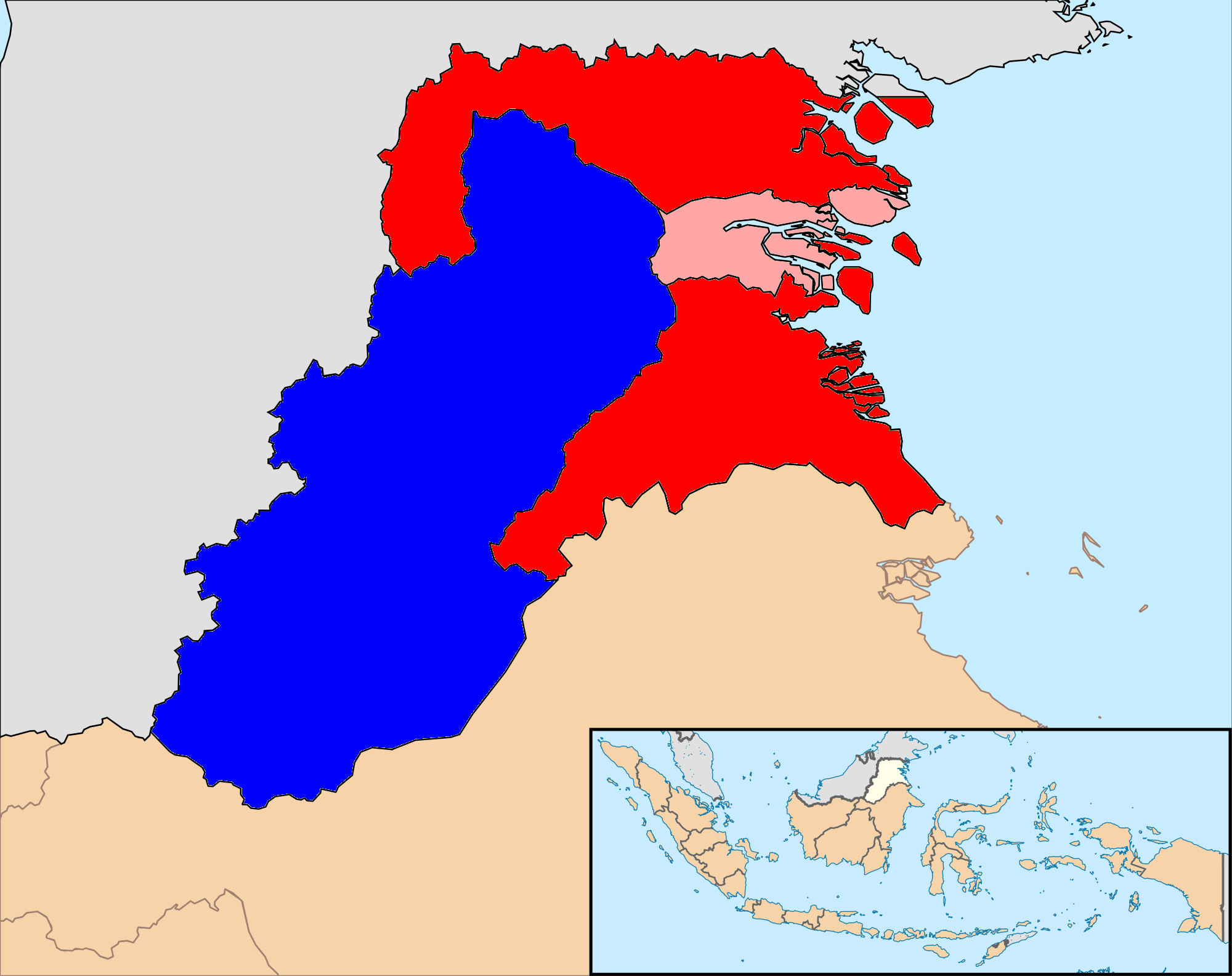 Results of the 2015 North Kalimantan gubernatorial elections. Regencies/cities won by Irianto Lambrie are in red (■), while the ones won by Jusuf Serang Kasim are in blue (■). Lighter shades (■or■) indicate a winning majority of less than 5%.